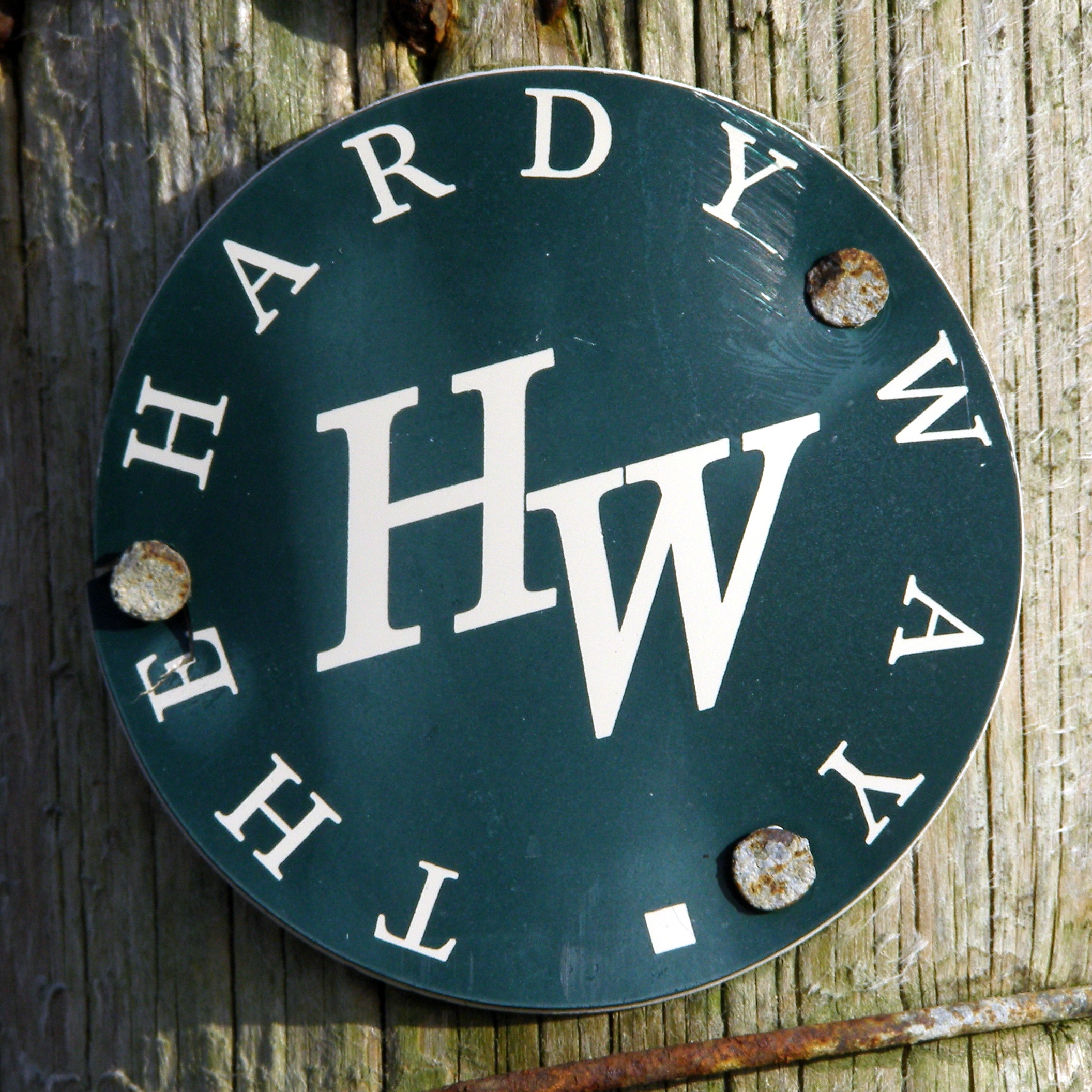 Marker on the Hardy Way, Dorset, U.K.